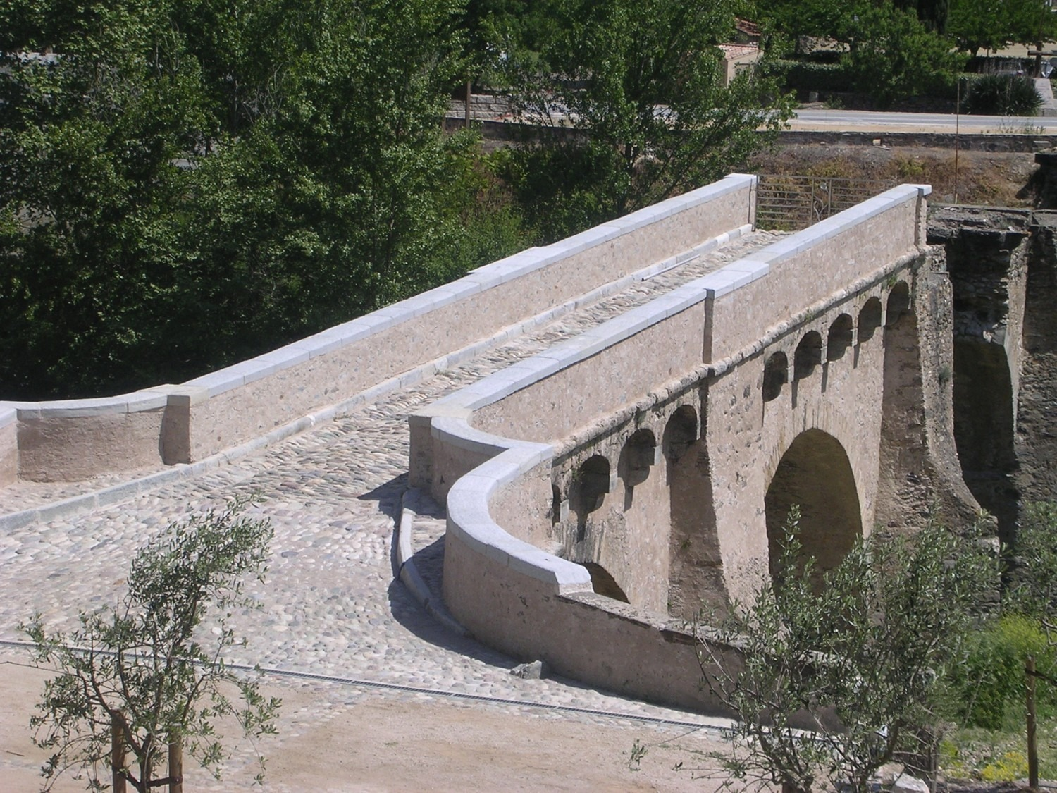 It's the famous bridge of Ponte Novu, in 2008. Cobblestone of the old pavement. Flooring with cobblestone, completed in 2007 Corsu: Ricciata fatta à petre fiumine, impezzata in 2007